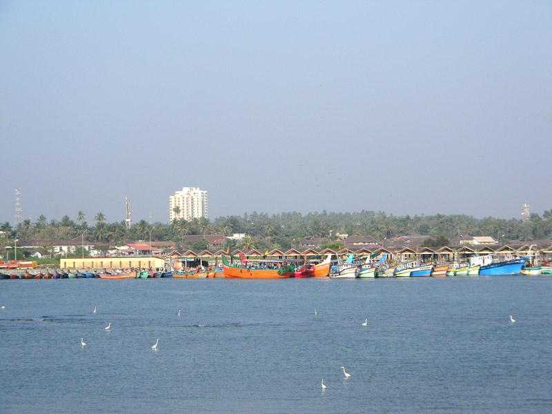 Mappila bay viewed from Kannur Fort, Kerala, India